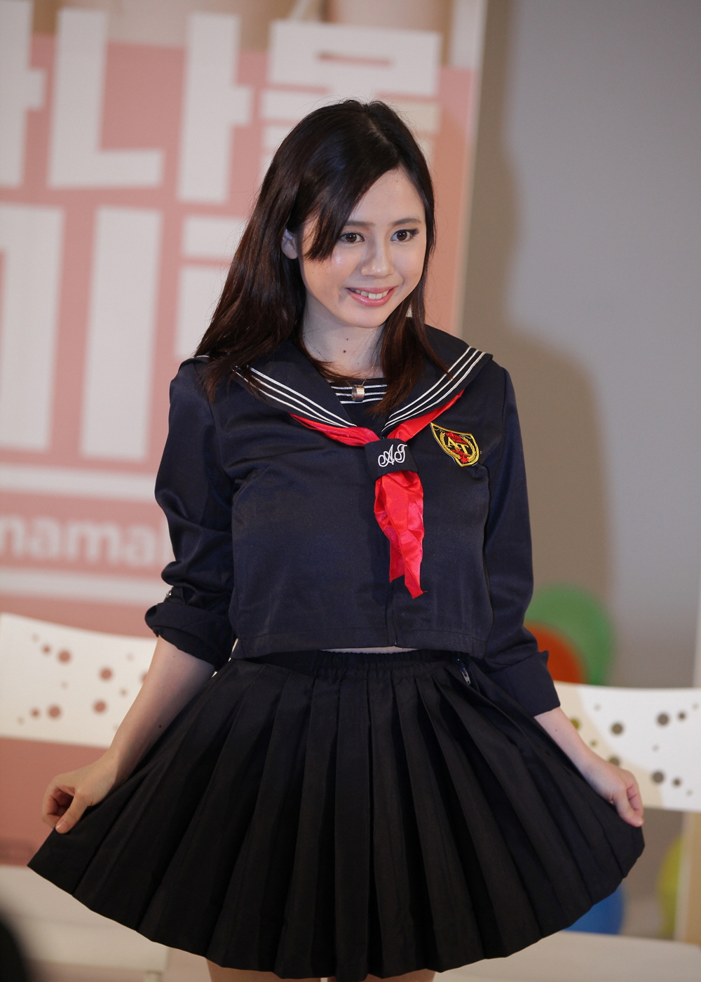 Aimi Yoshikawa, in 2017.